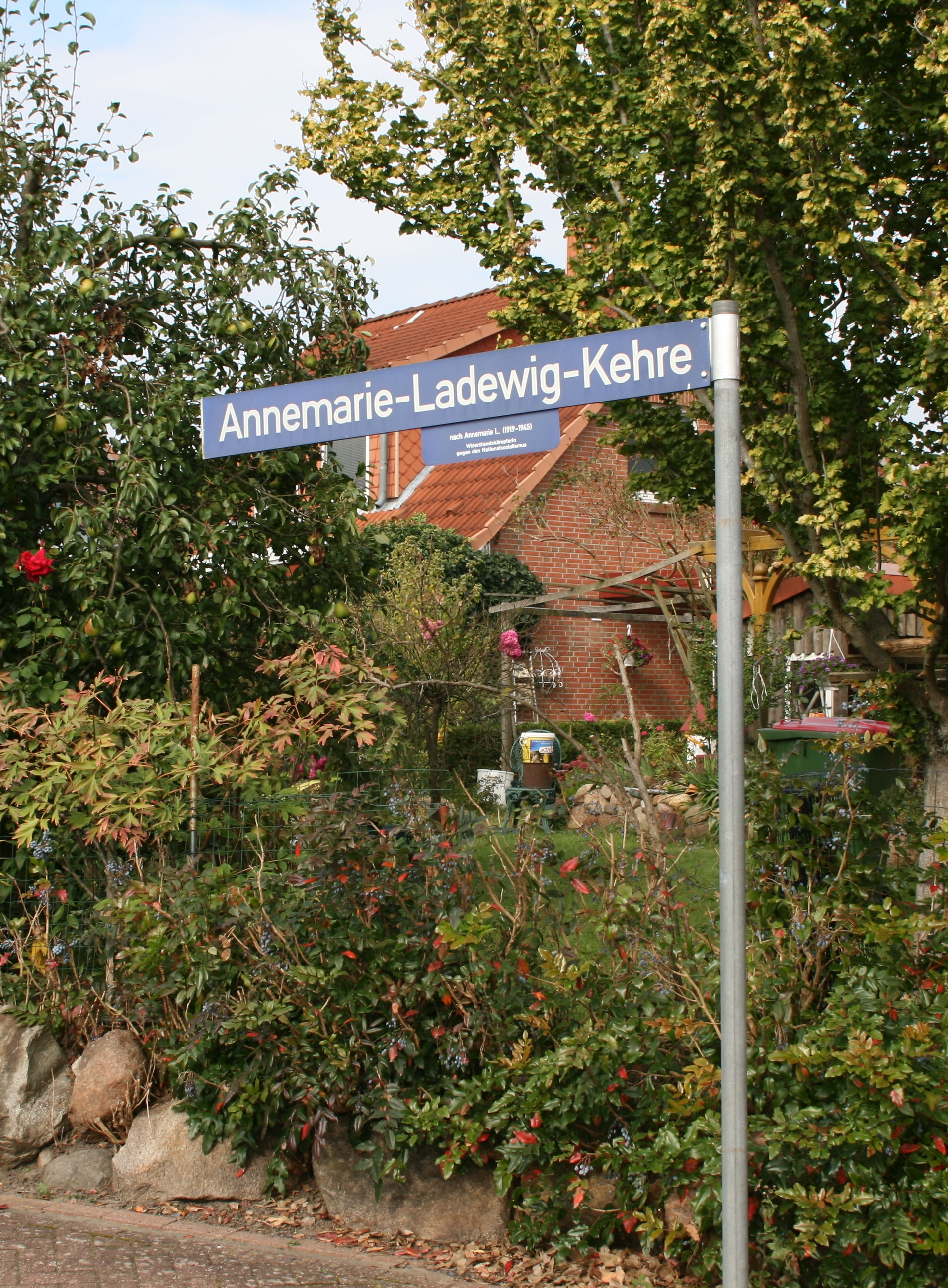 The Annemarie-Ladewig-Kehre in Hamburg-Neuallermöhe named after the artist and member of the German Resistance Annemarie Ladewig ((1919−1945)